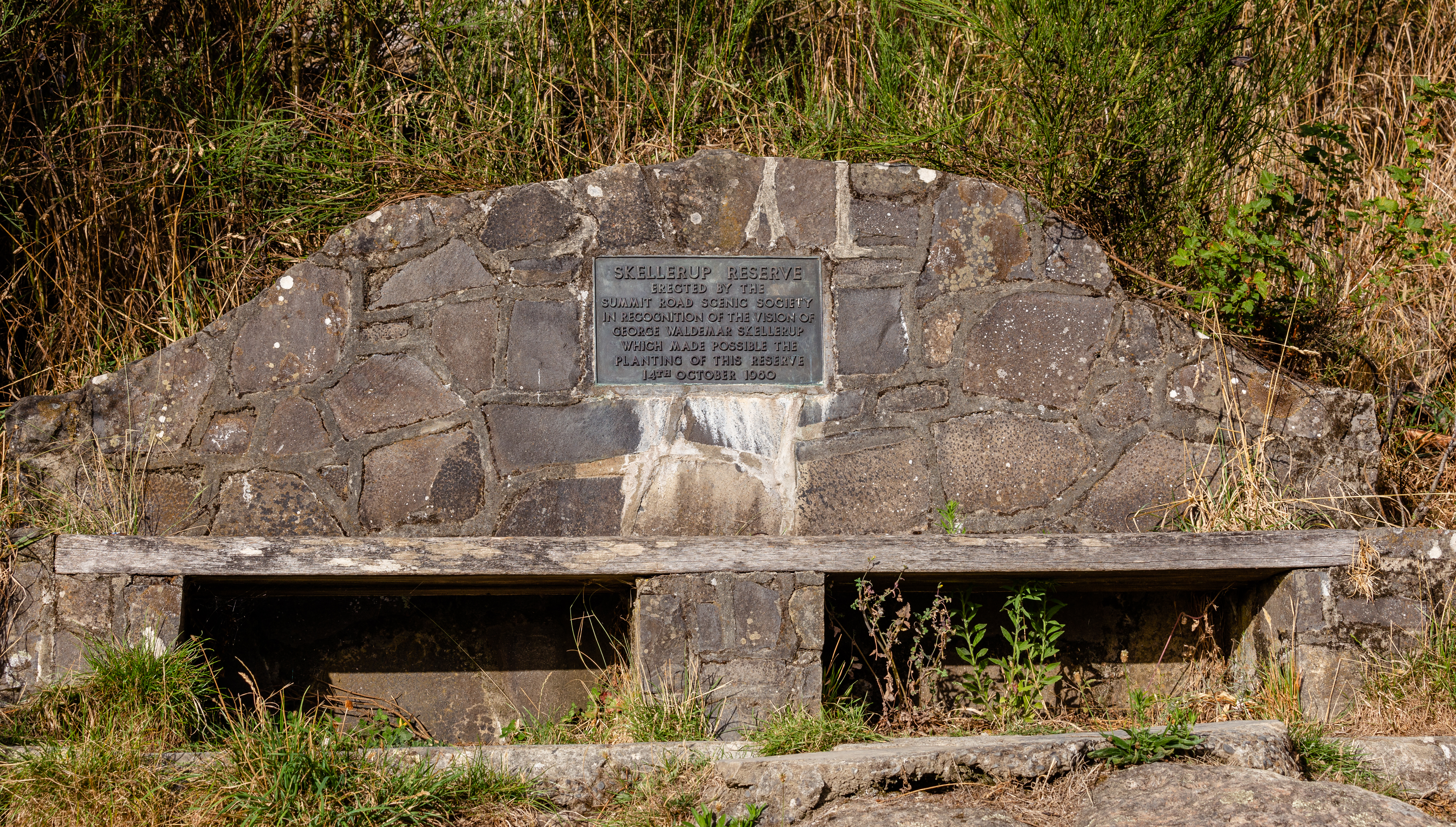 Skellerup Memorial, Christchurch, New Zealand reading: Skellerup Reserve erected by the Summit Road Scenic Society in recognition of the vision of George Waldemar Skellerup which made possible the planting of this reserve 14th October 1960